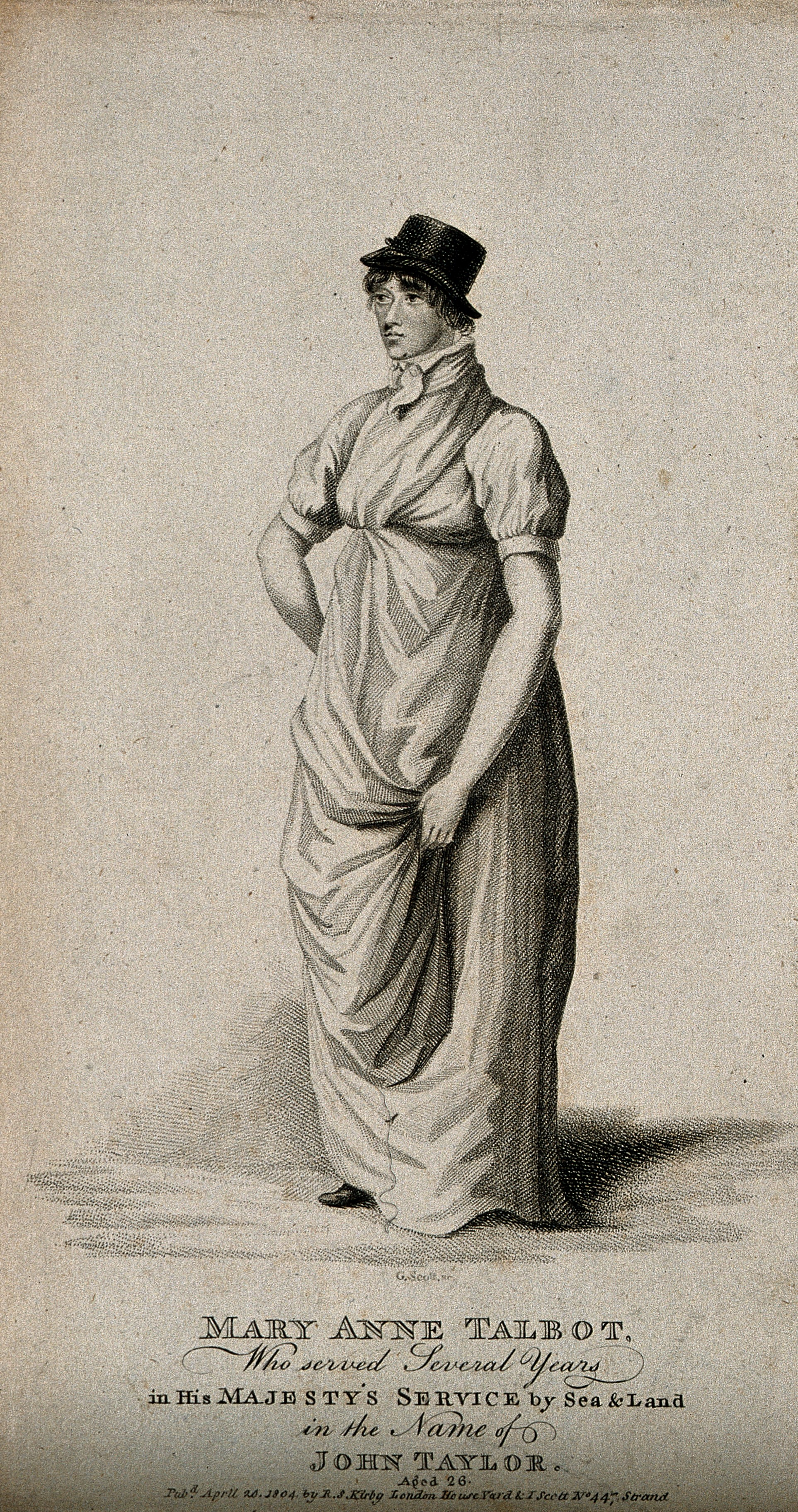 Mary Anne Talbot, a woman who passed as a male soldier and sailor. Engraving by G. Scott, 1804. Iconographic Collections Keywords: intaglio prints; portrait prints; talbot, mary anne; Transvestism; Mary Anne Talbot; G Scott